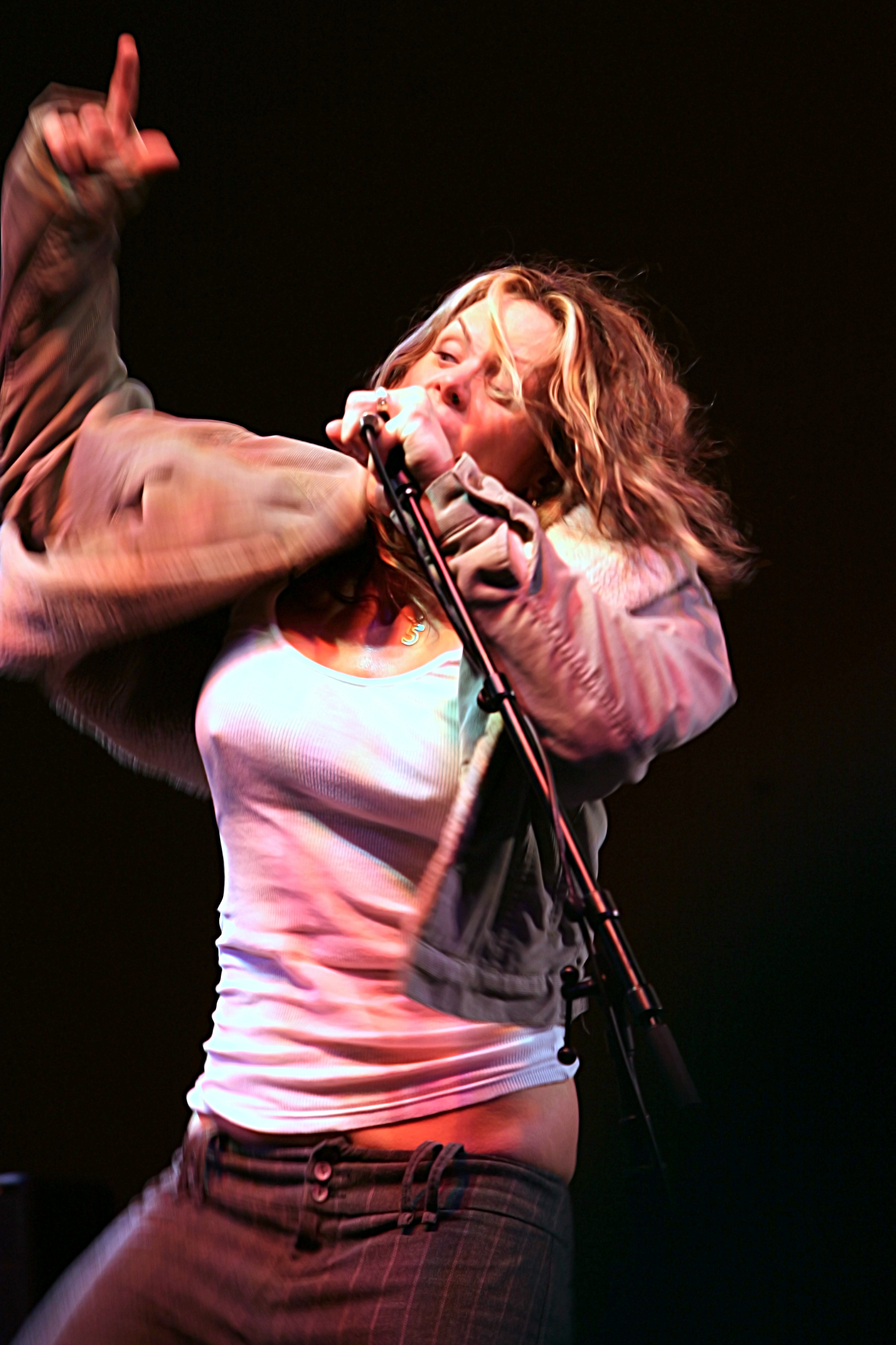 Beth Hart at San Diego Indie Music Fest